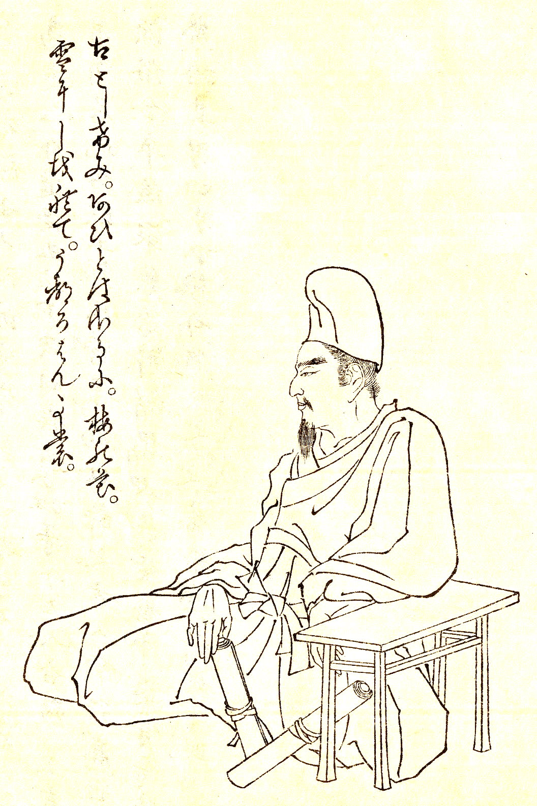 Isonokami no Yakatsugu(石川宅嗣) was a Japanese court noble and poet in Nara period.